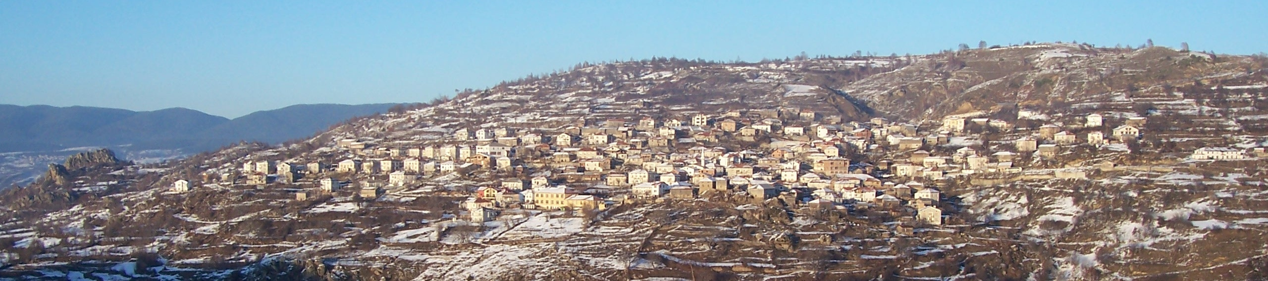 Panorama of the village of Tsrancha.